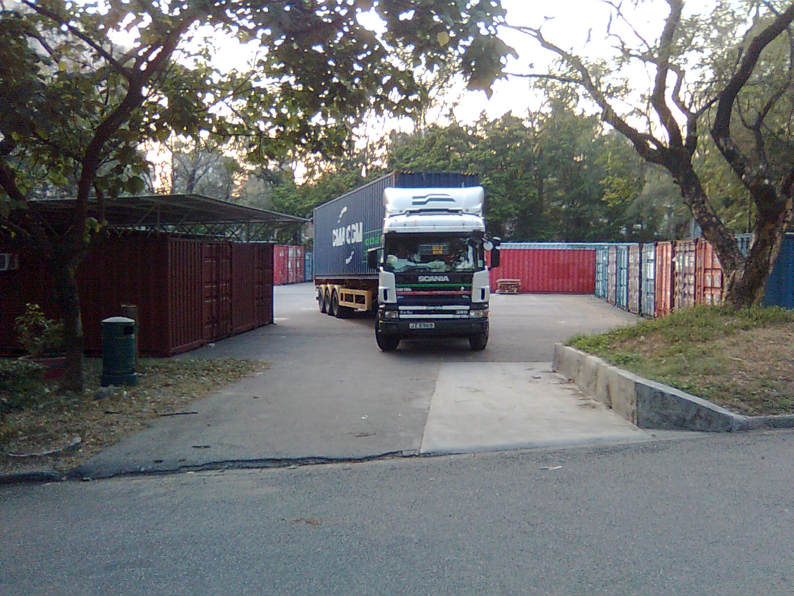 Cargo loading @ CR